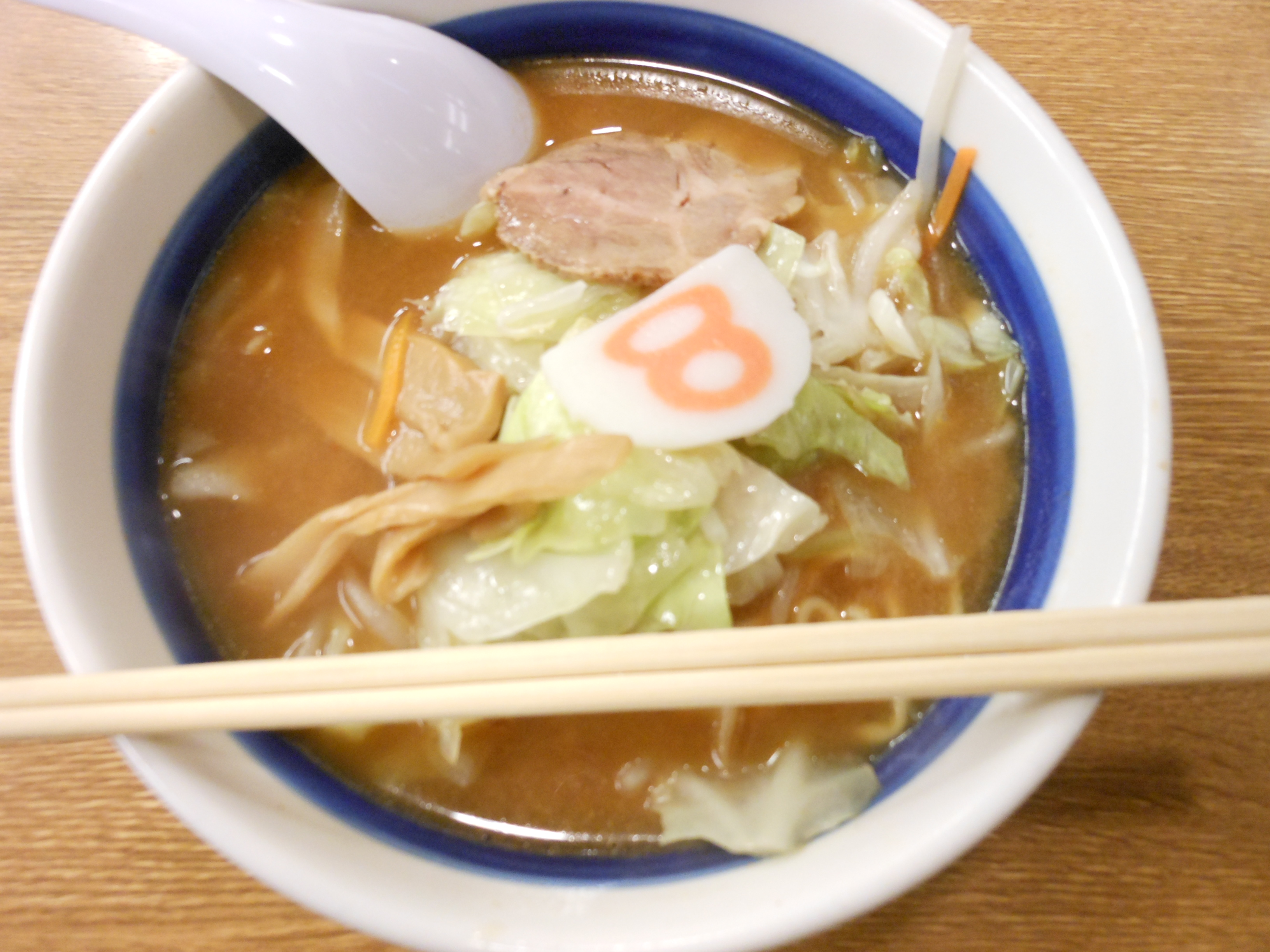 This is a boul of vegetable noodle miso taste cooked by 8 Ban Ramen Wajima shop (In Wajima, Ishikawa, Japan).